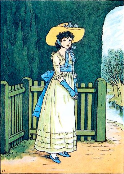 Girl wearing a hat and a pale green dress with light blue gloves, slippers and ribbons